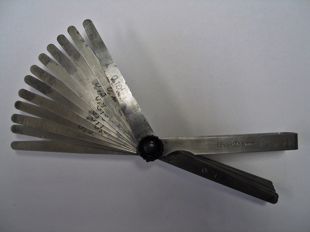 feeler gauge